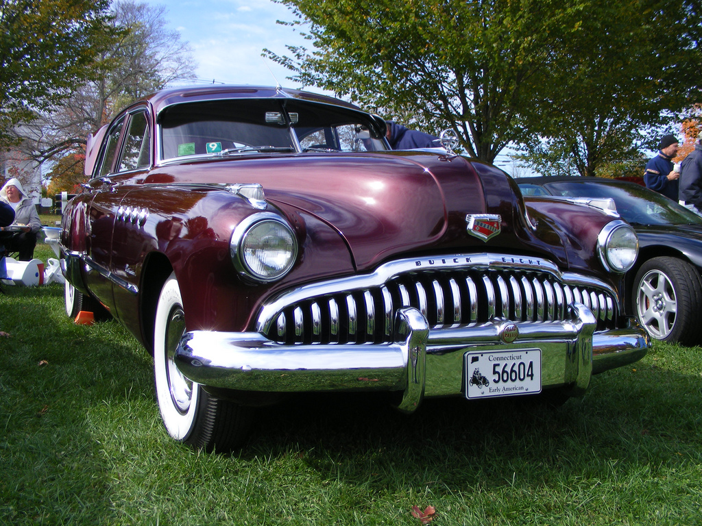 1949 Buick Roadmaster Sedan